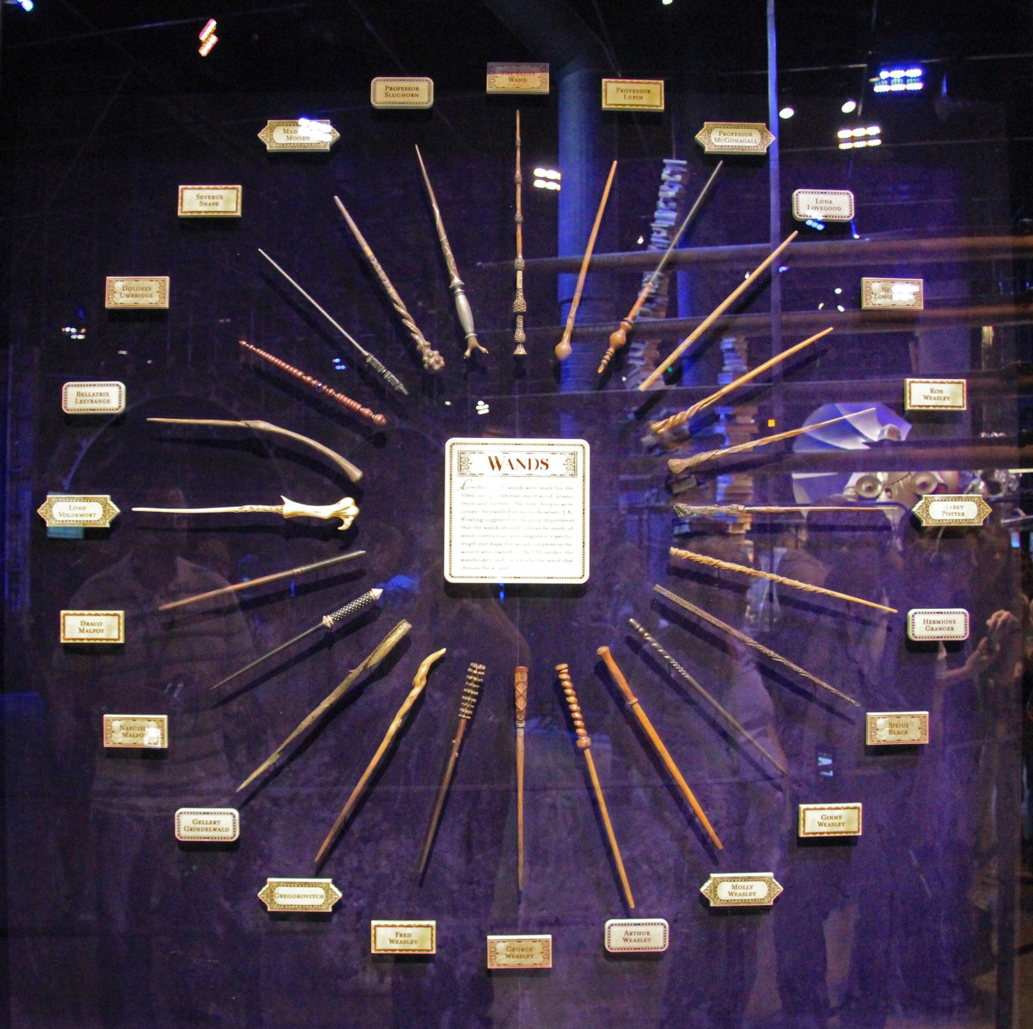 Warner Bros. Studio Tour London: The Making of Harry Potter.